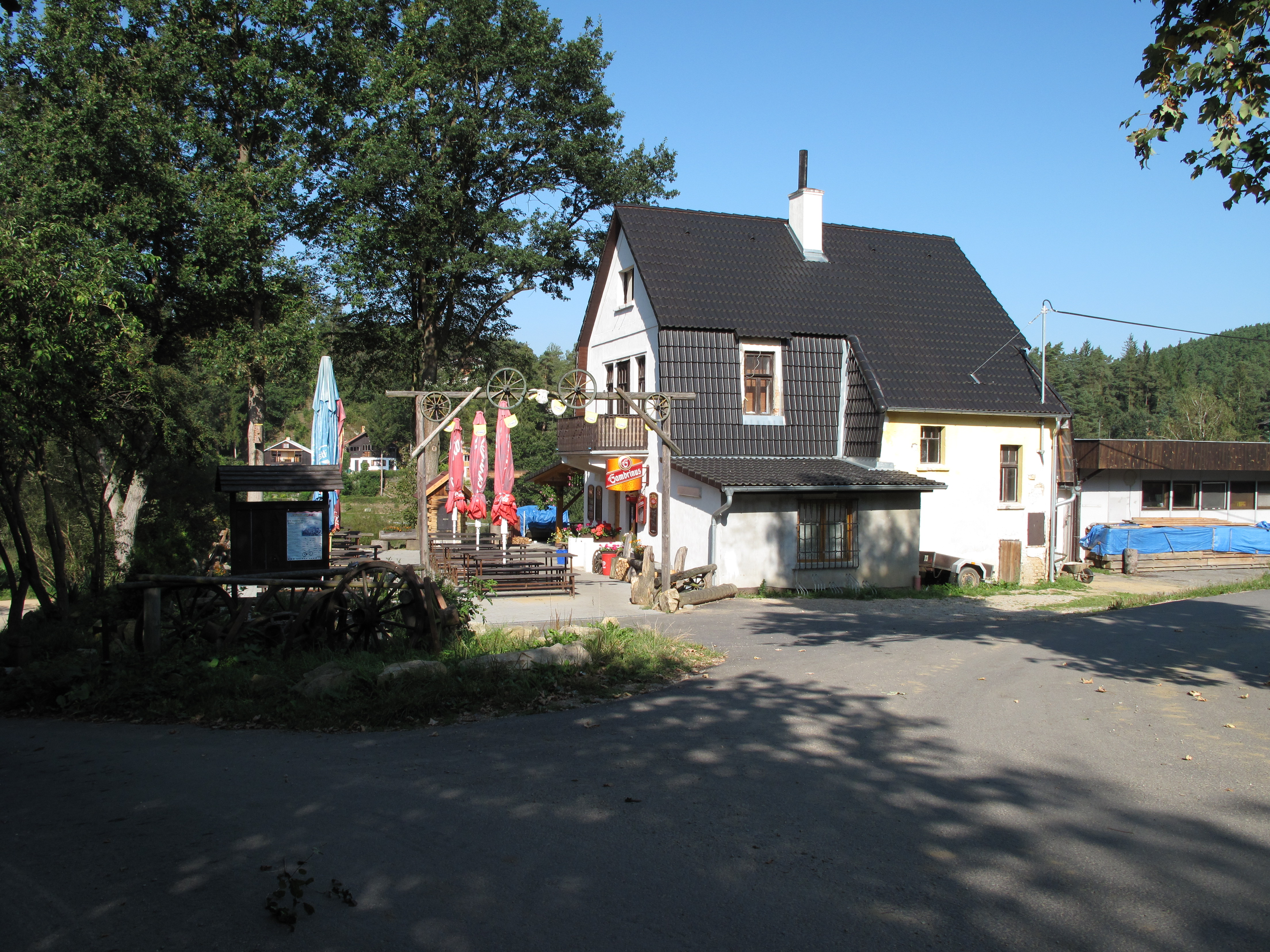 U Caisů restaurant in Vojníkov village, Písek District, Czech Republic.